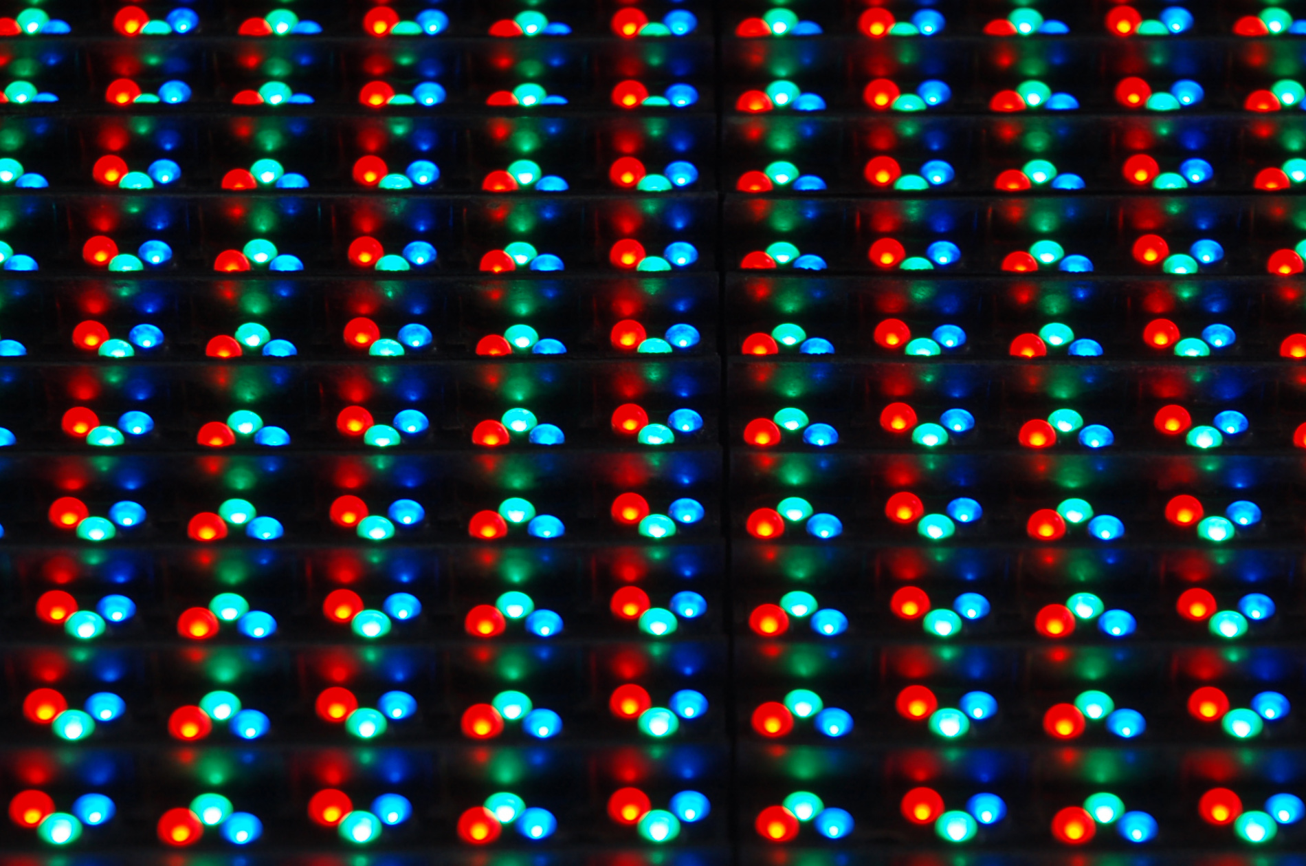 LED large display RGB matrix.